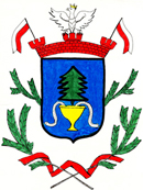 Stary herb Otwocka z 1916 roku.